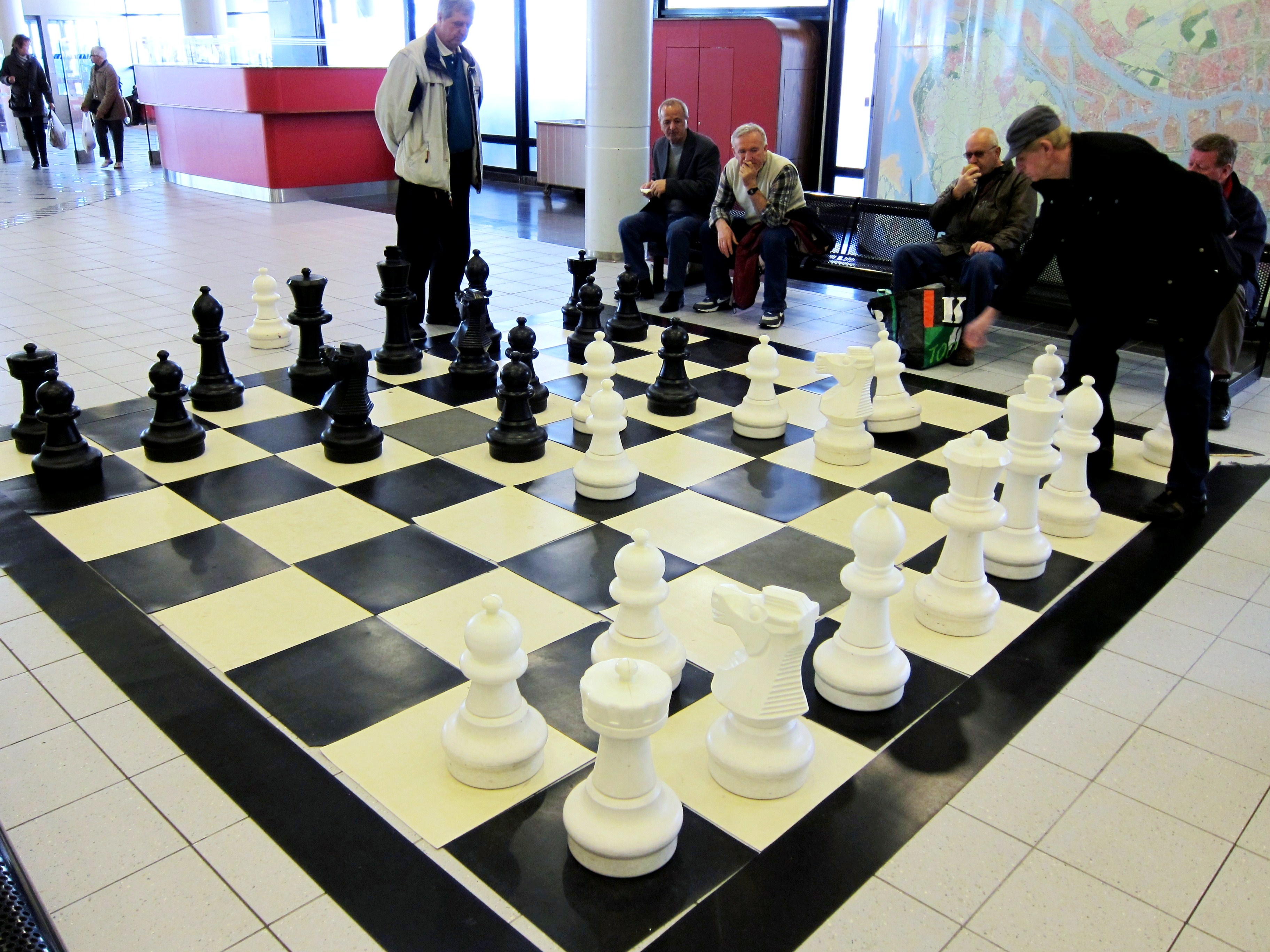 Chess in the Library